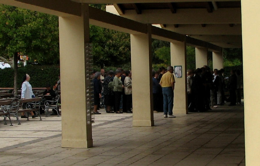 Pilgrims queueing at the confessional in Međugorje, Bosnia and Herzegovina, 6 October, 2007